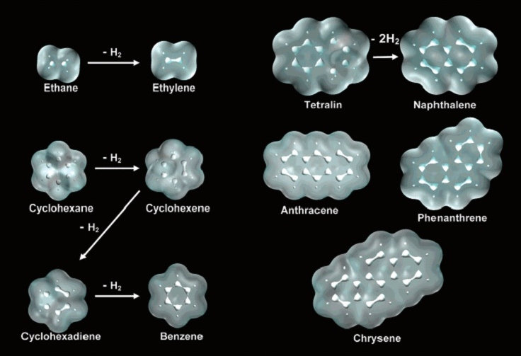 Electron density in different rings